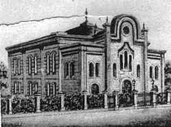 Synagogue in Zielona Góra